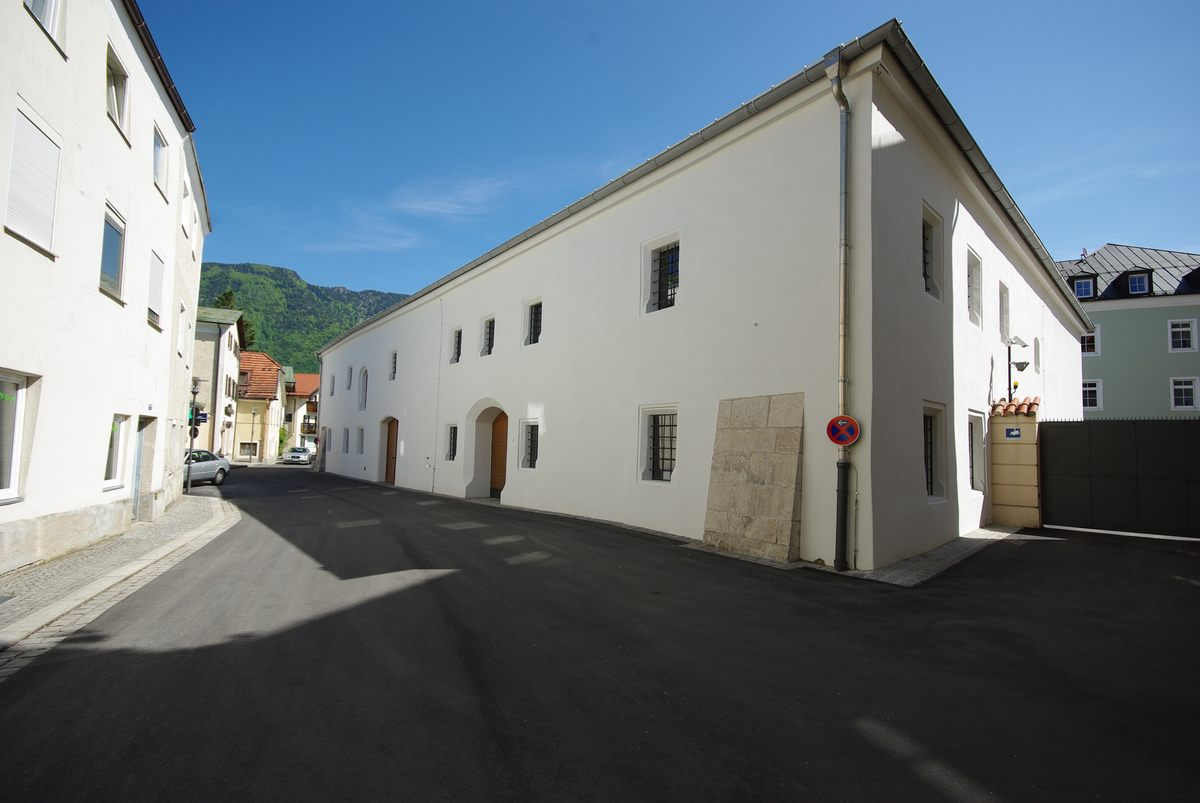 Getreidegasse 4, Bad Reichenhall